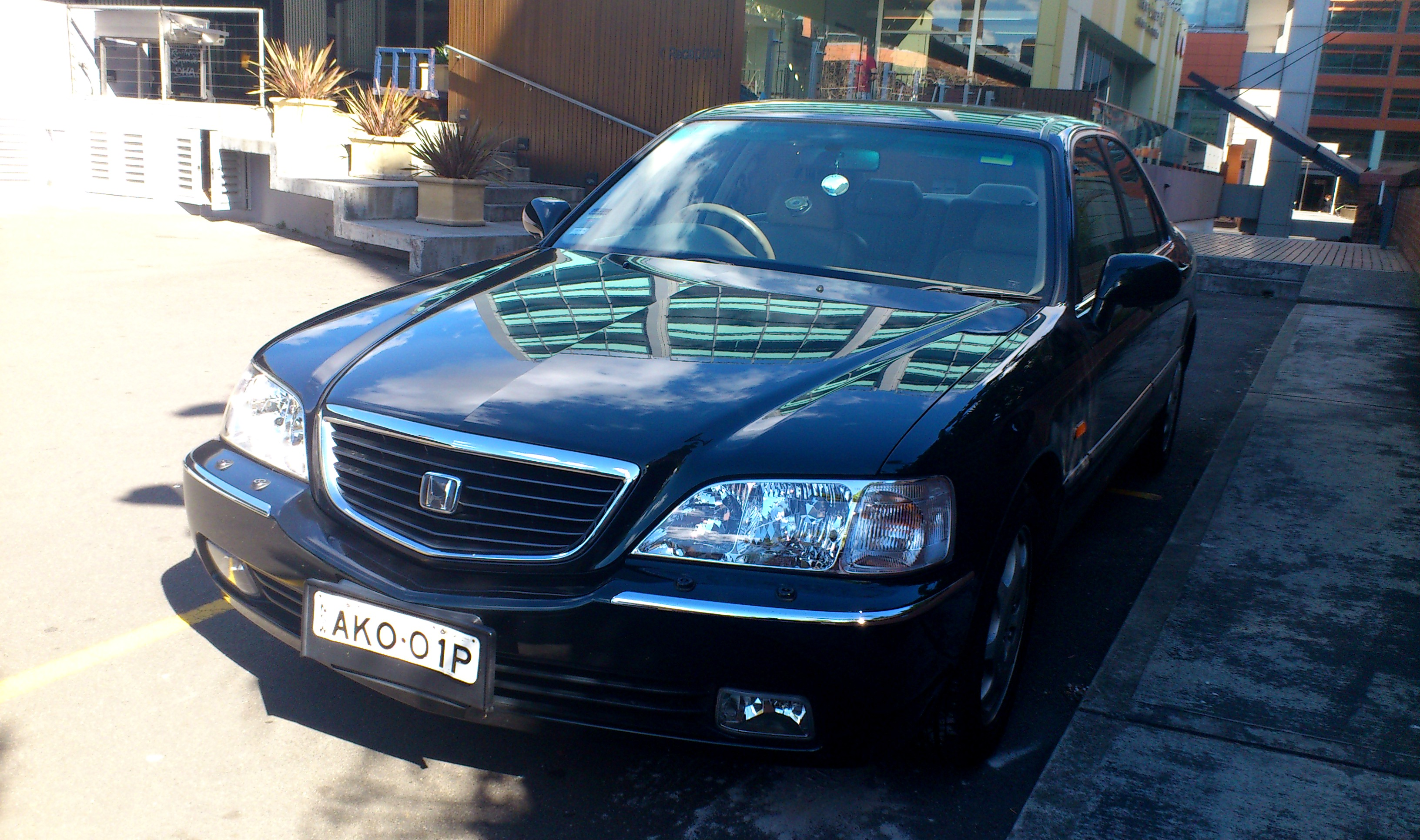 The Legend is a perfectly decent, if completely forgettable machine, I always wonder who ignores all other choices and buys them new...